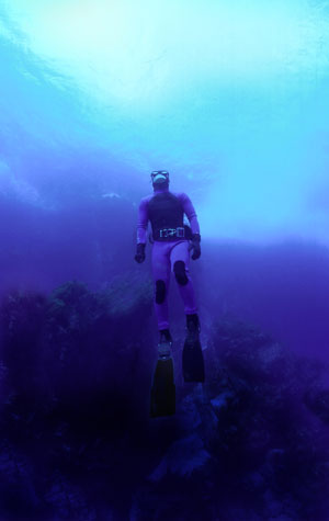 Photo by James Frazeel. Posted here for his approval. Previously contacted him for approval, now recontacting to view in place. Will advise on approval.